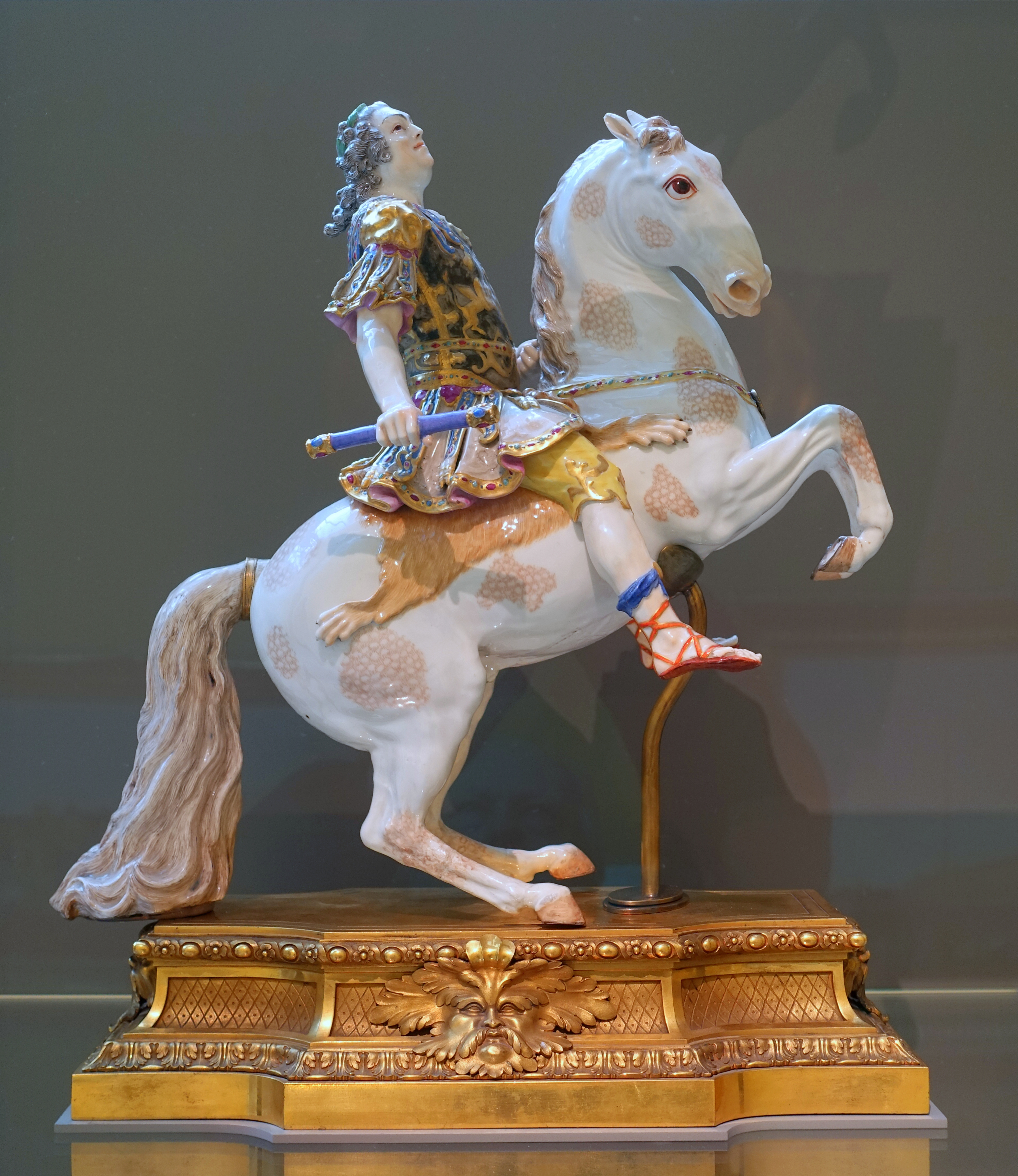 Exhibit in the Wadsworth Atheneum - Hartford, Connecticut, USA. This work is old enough so that it is in the public domain.